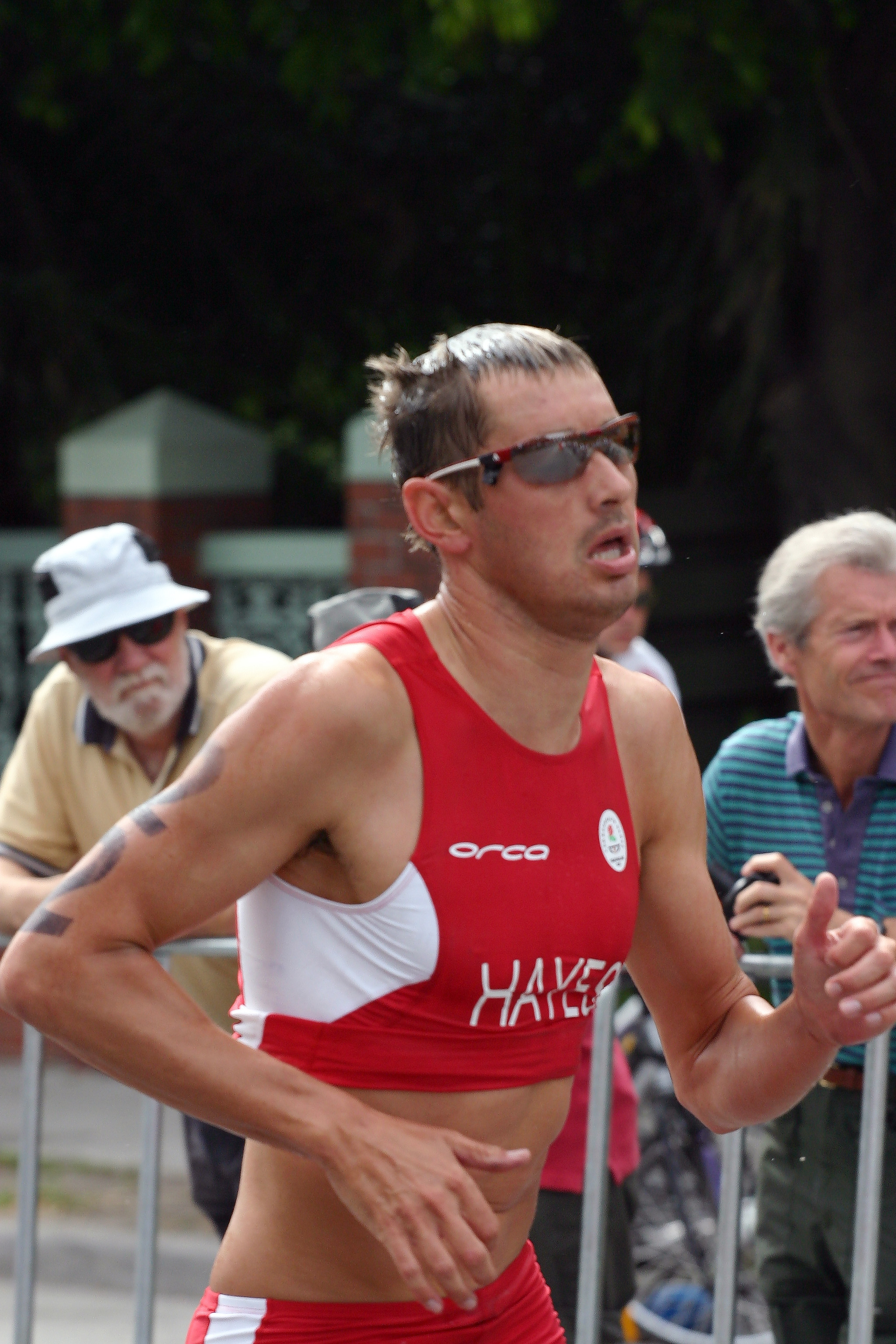 Stuart Hayes on the run section of the men's triathlon at the 2006 Commonwealth Games in Melbourne